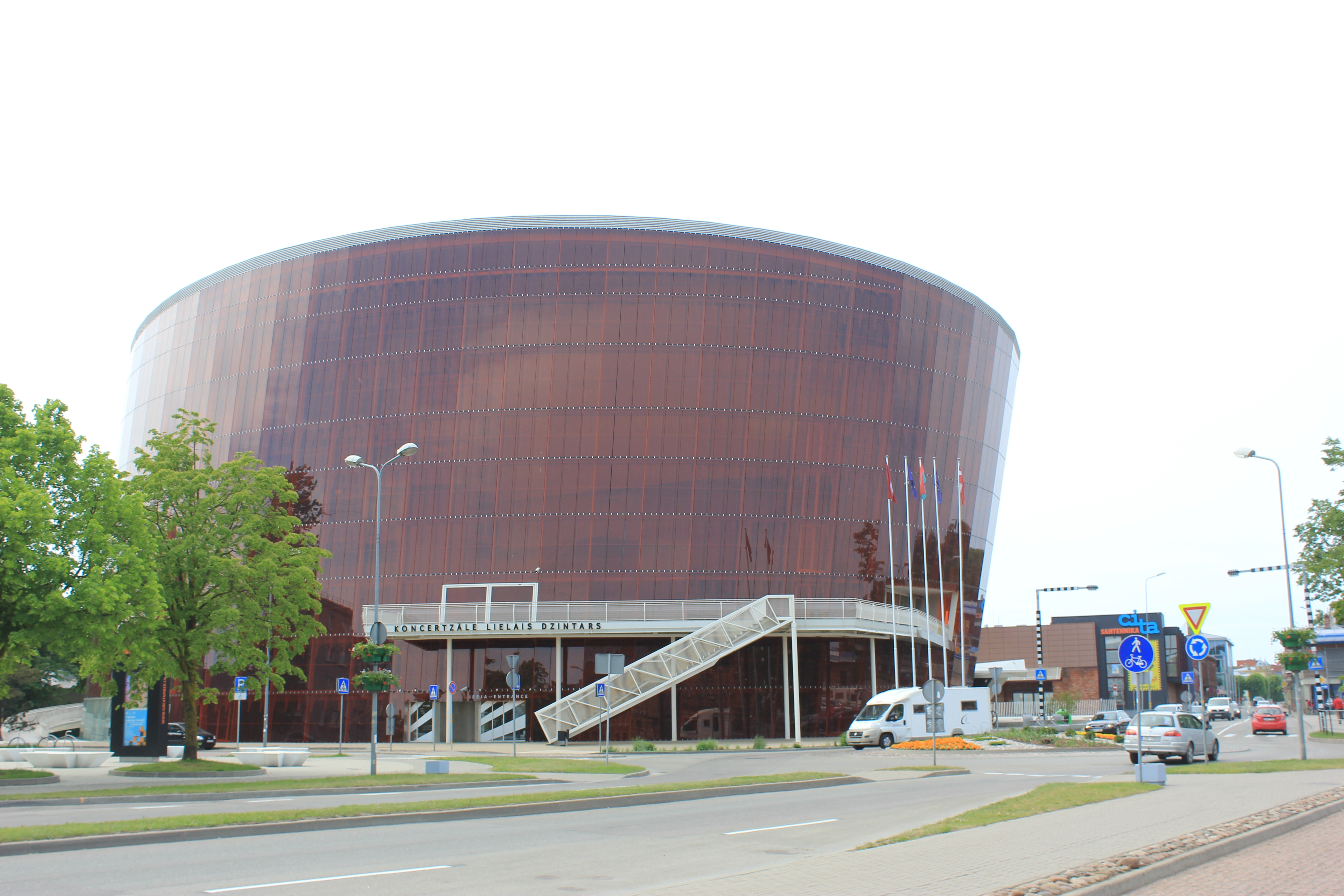 Liepaja - Great Amber Concert Hall